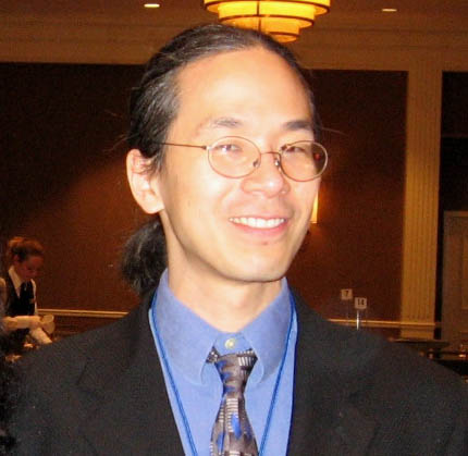 Ted Chiang, American science fiction author. Taken at the 2007 World Fantasy Convention.